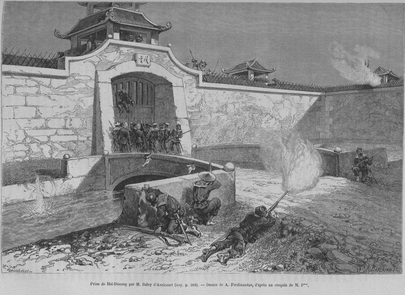 French troops captured Hai Duong citadel